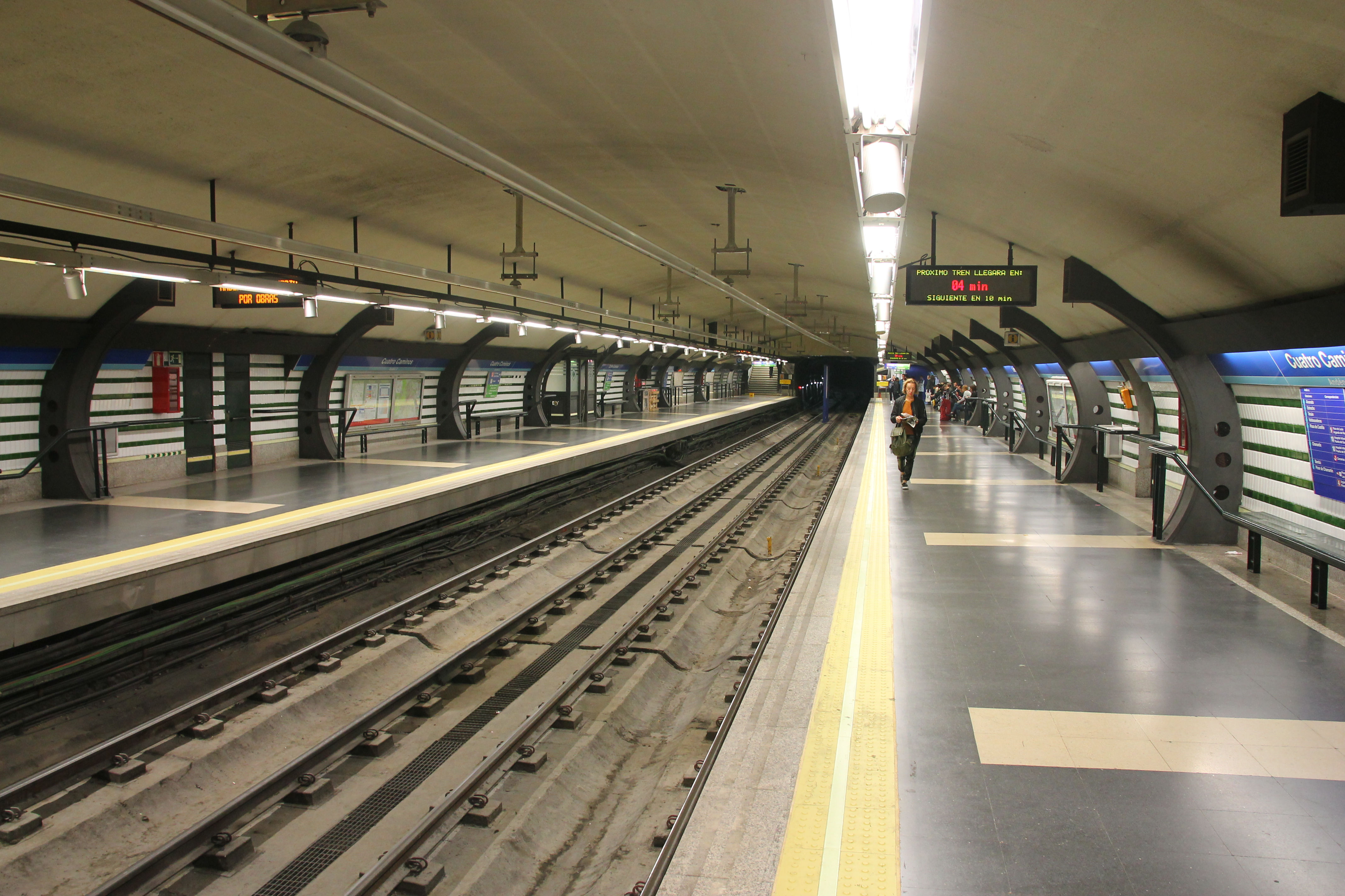 Platform of the Cuatro Caminos metro station, line 1, Madrid